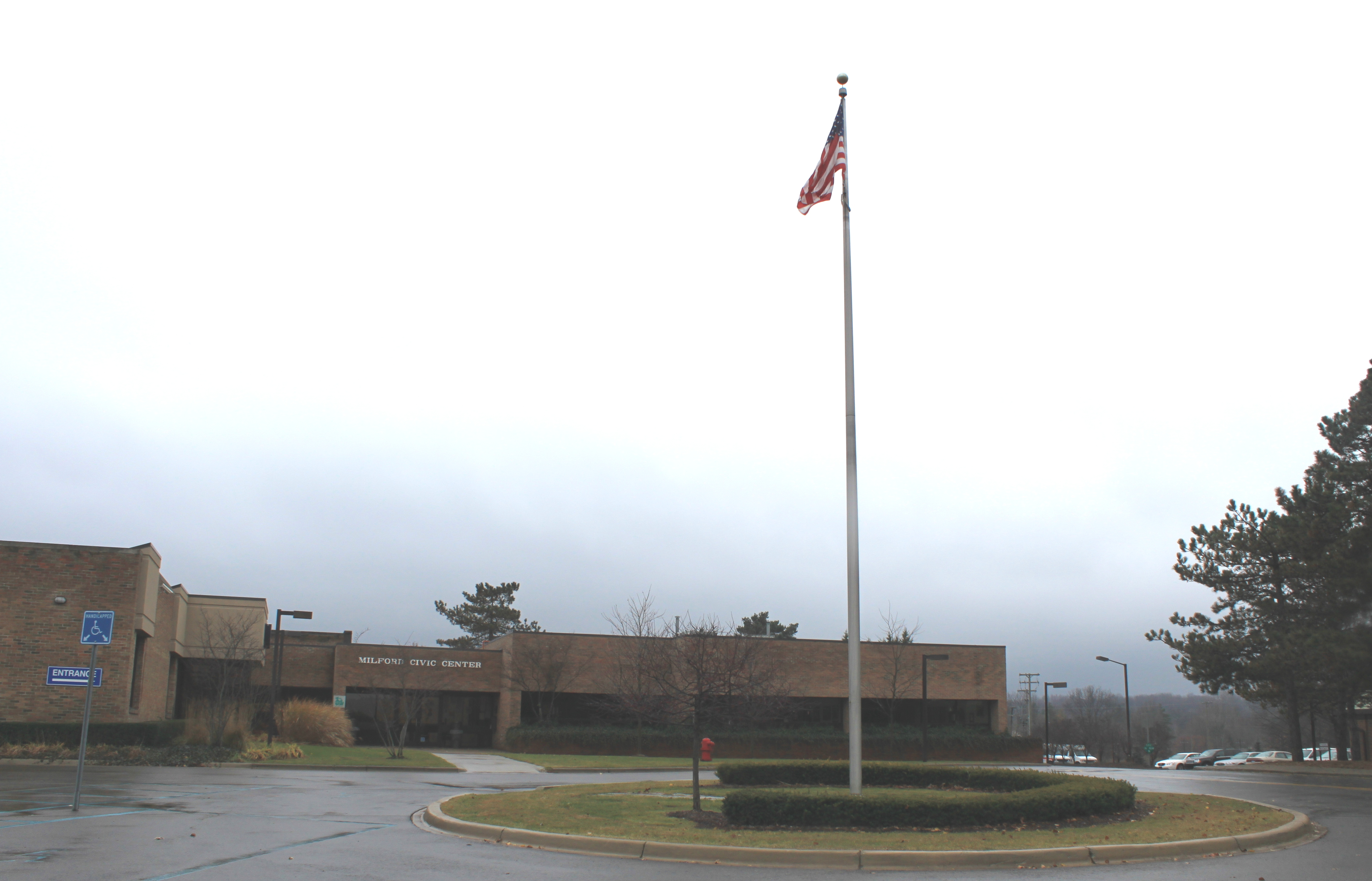 Village of Milford Michigan Civic Center, 1100 Atlantic Street, Milford, Michigan. The building houses the offices of both Milford Township and the separately administered Village of Milford.